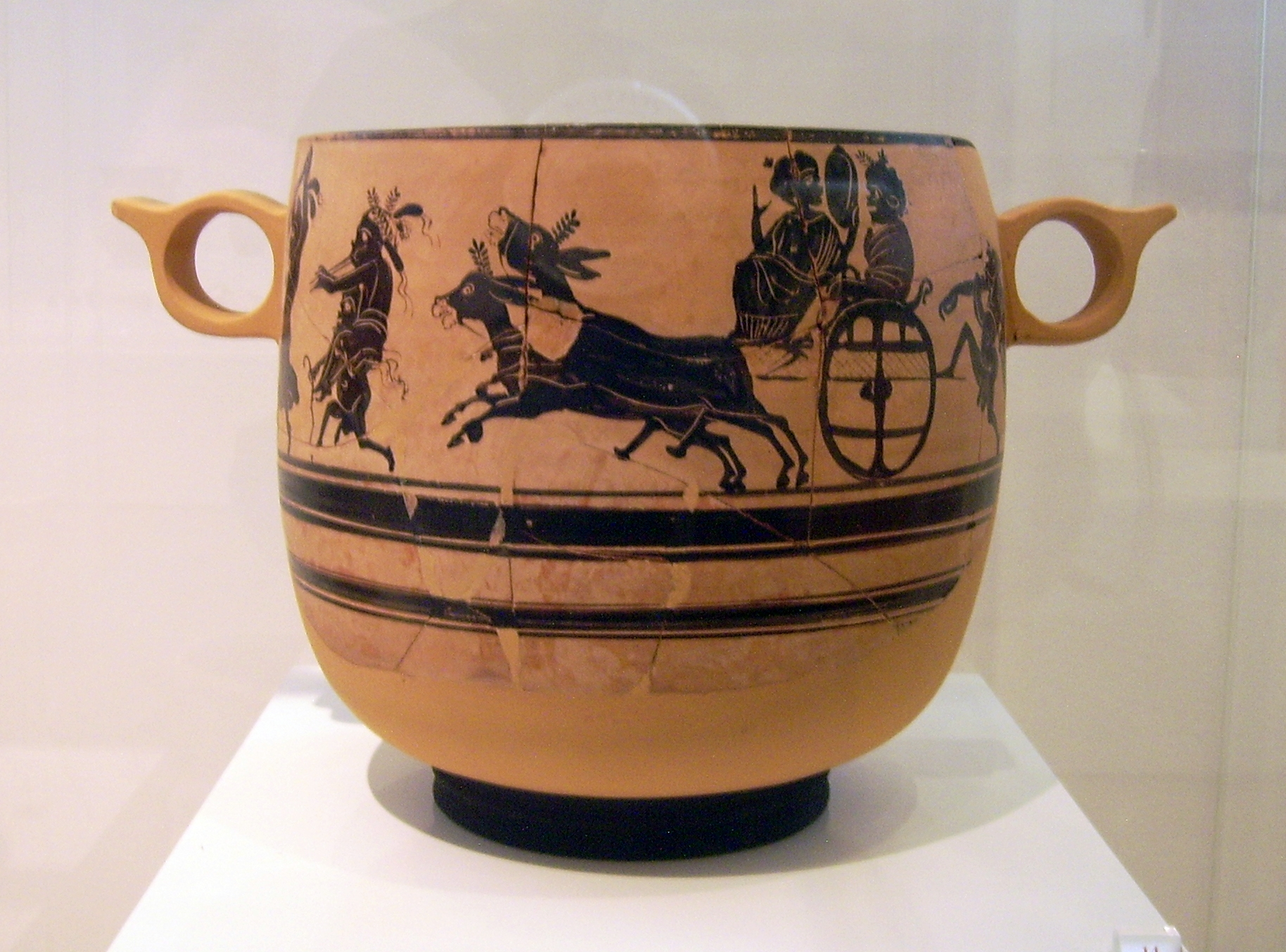 Kabeiric Skyphos. Procession towards the Sanctuary of the Kabeiroi. From Thebes. By the Mystai Painter. Late 5th, early 4th century B.C. (424)